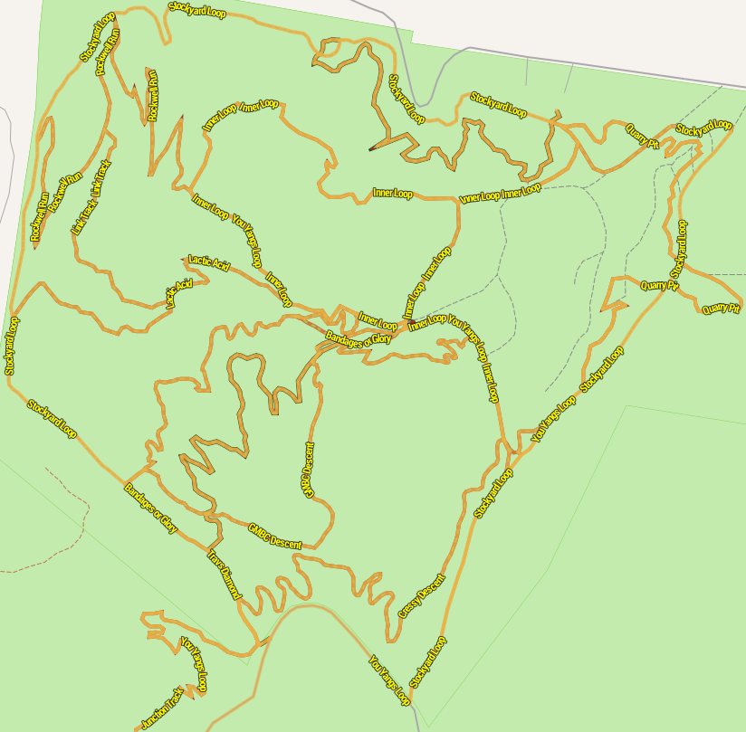 Map of the You Yangs Stockyards mountain biking area. Data is (c) OpenStreetMap Contributors. Rendered using TileMill and a style I created.